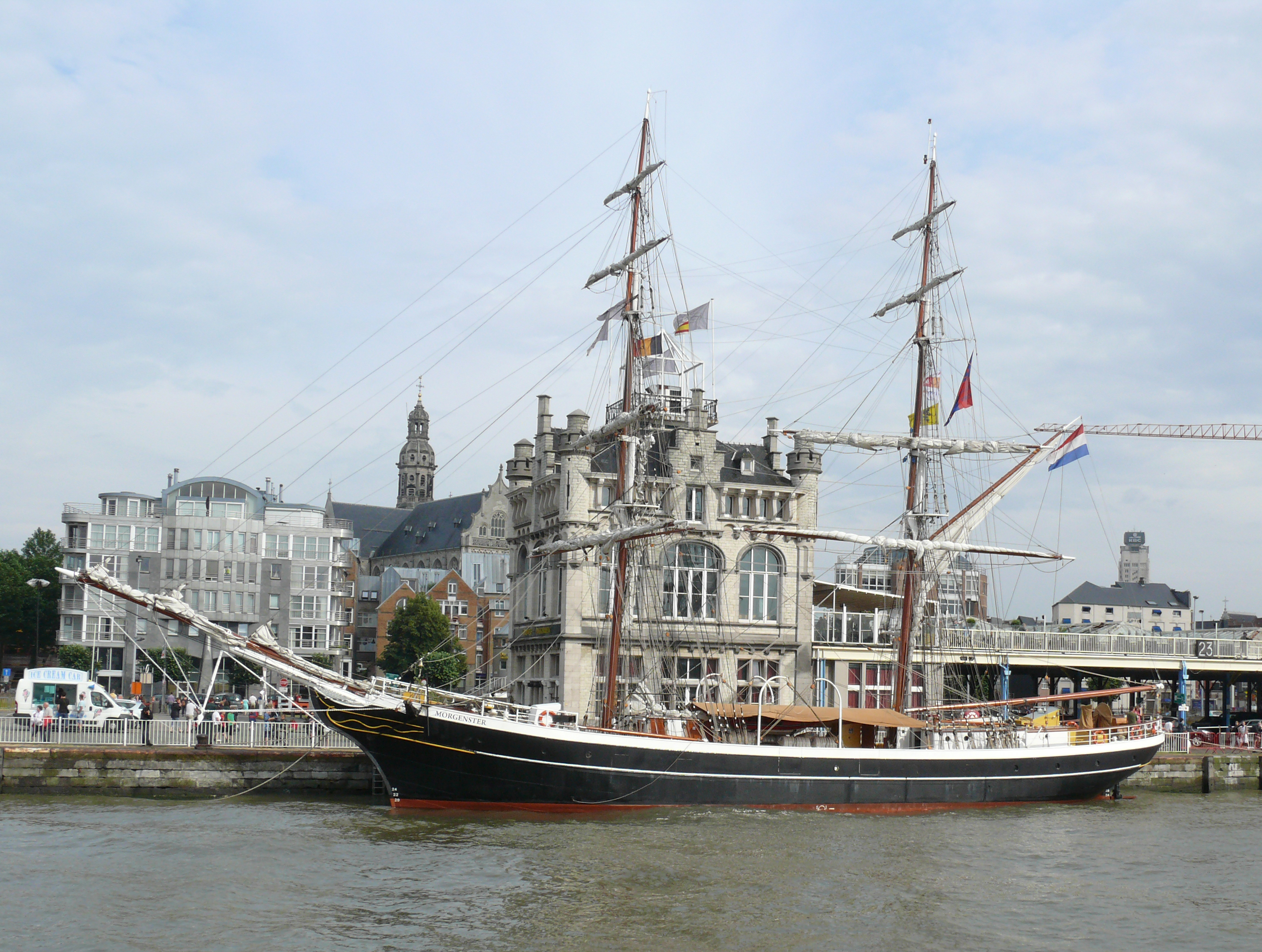 The brig Morgenster during the Tall Ships' Race 2010 in Antwerp.